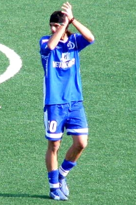 Danny in action for FC Dinamo Moscow